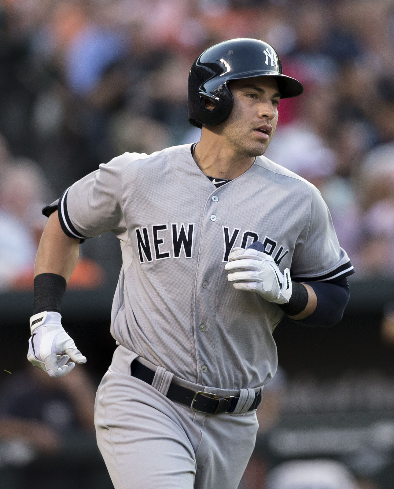 Jacoby Ellsbury on July 11, 2014.